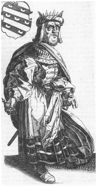 Redbad, King of the Frisians